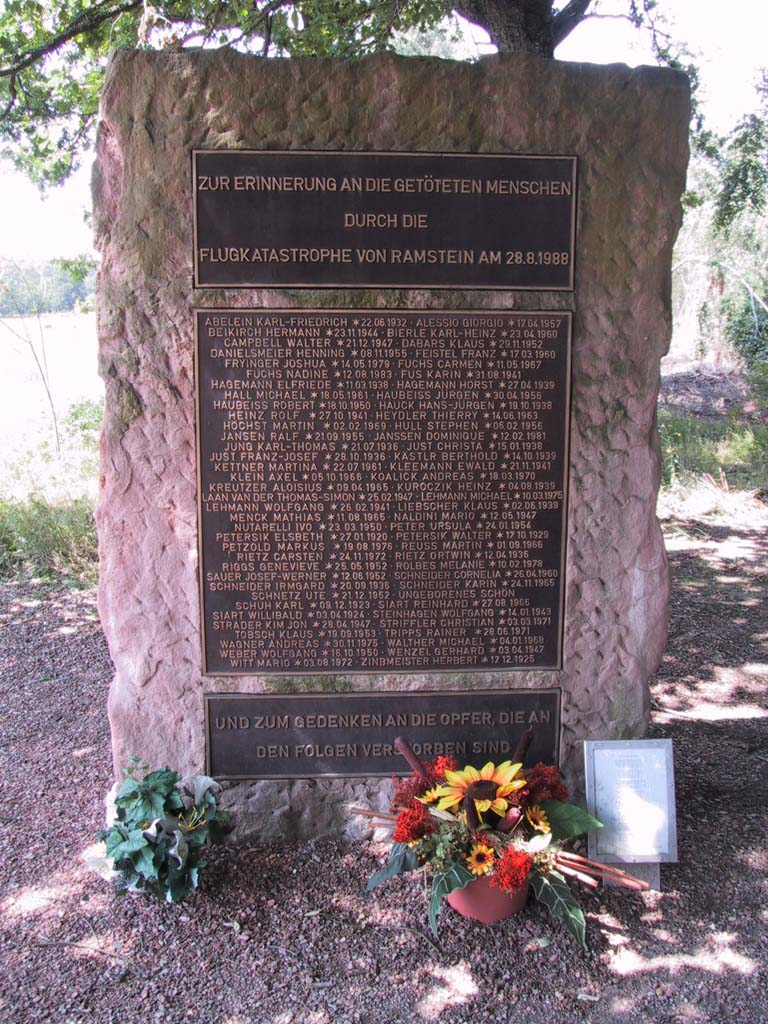 Memorial for the victims of the Ramstein airshow disaster. The memorial stone is located next to the driveway to Ramstein Air Base. Photography by Frank Weiler (Wikiped) 21.07.2006